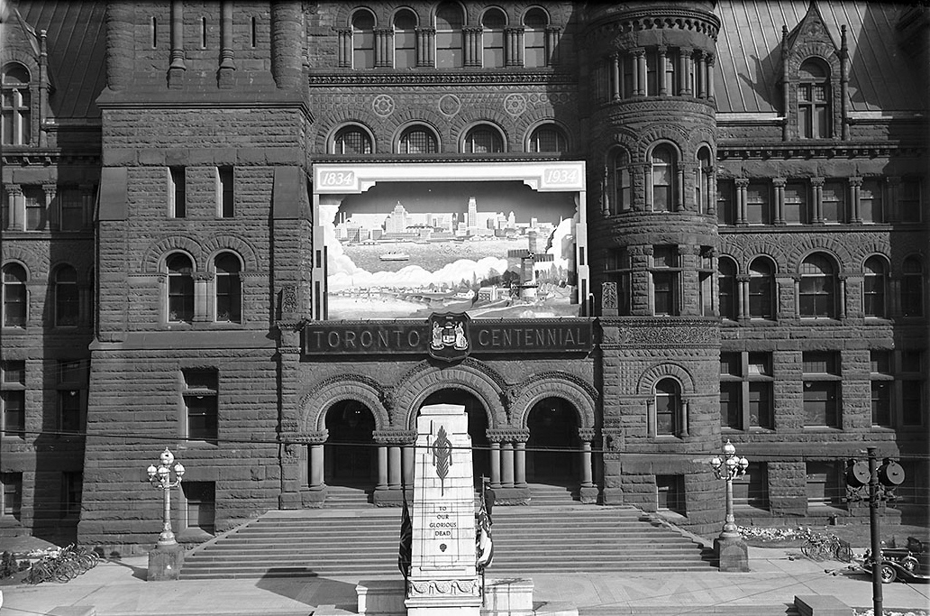 City Hall decorated for Toronto's 1934 centennial celebrations. Toronto, Canada.